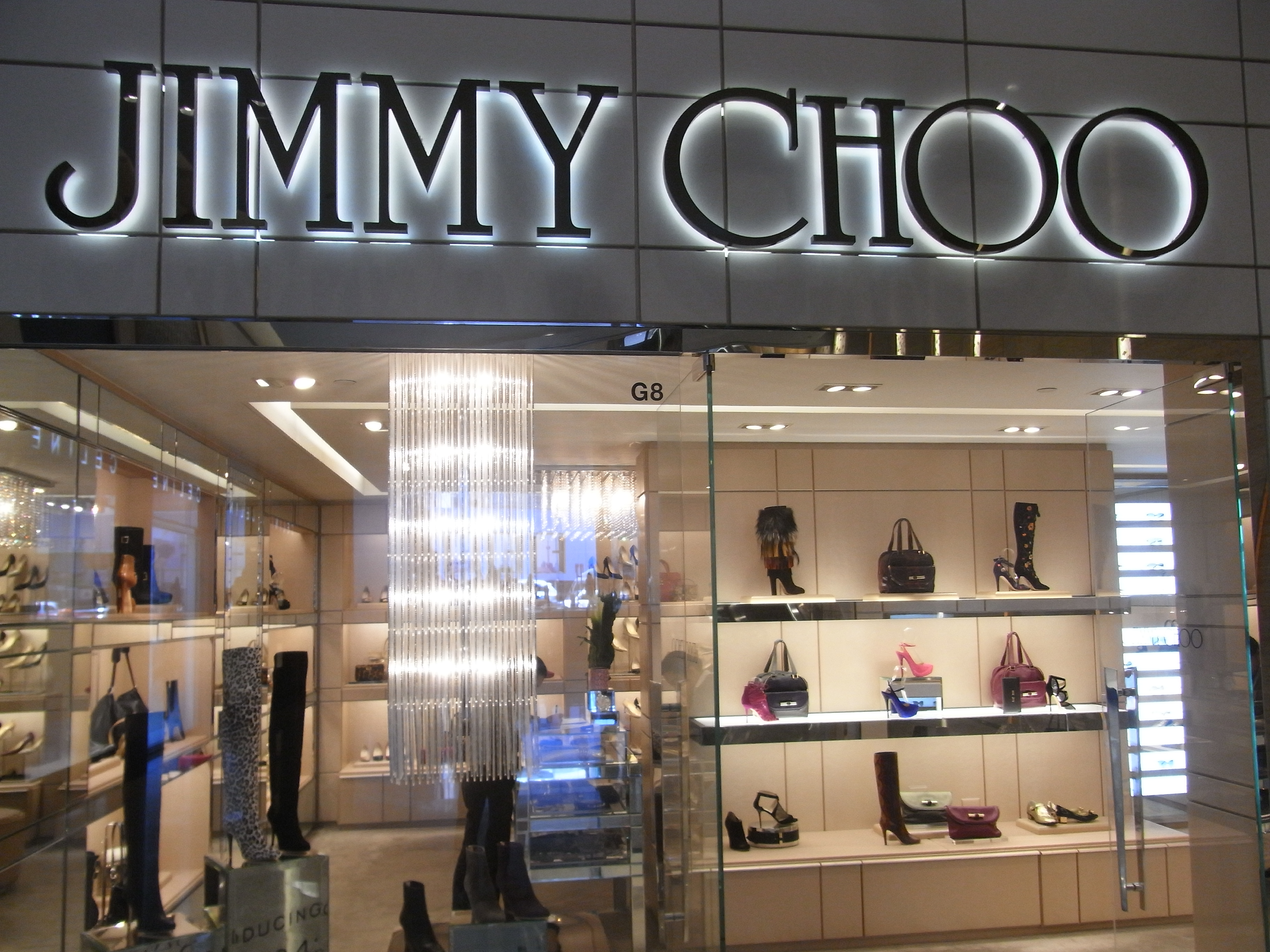 랜드마크 (홍콩), 置地廣場, The Landmark, Central, Hong Kong